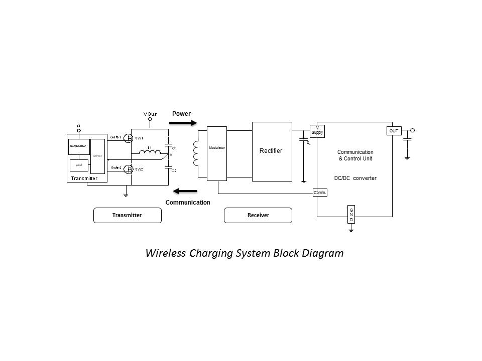 High Level Illustration of Powermat Technologies inductive wireless charging system.